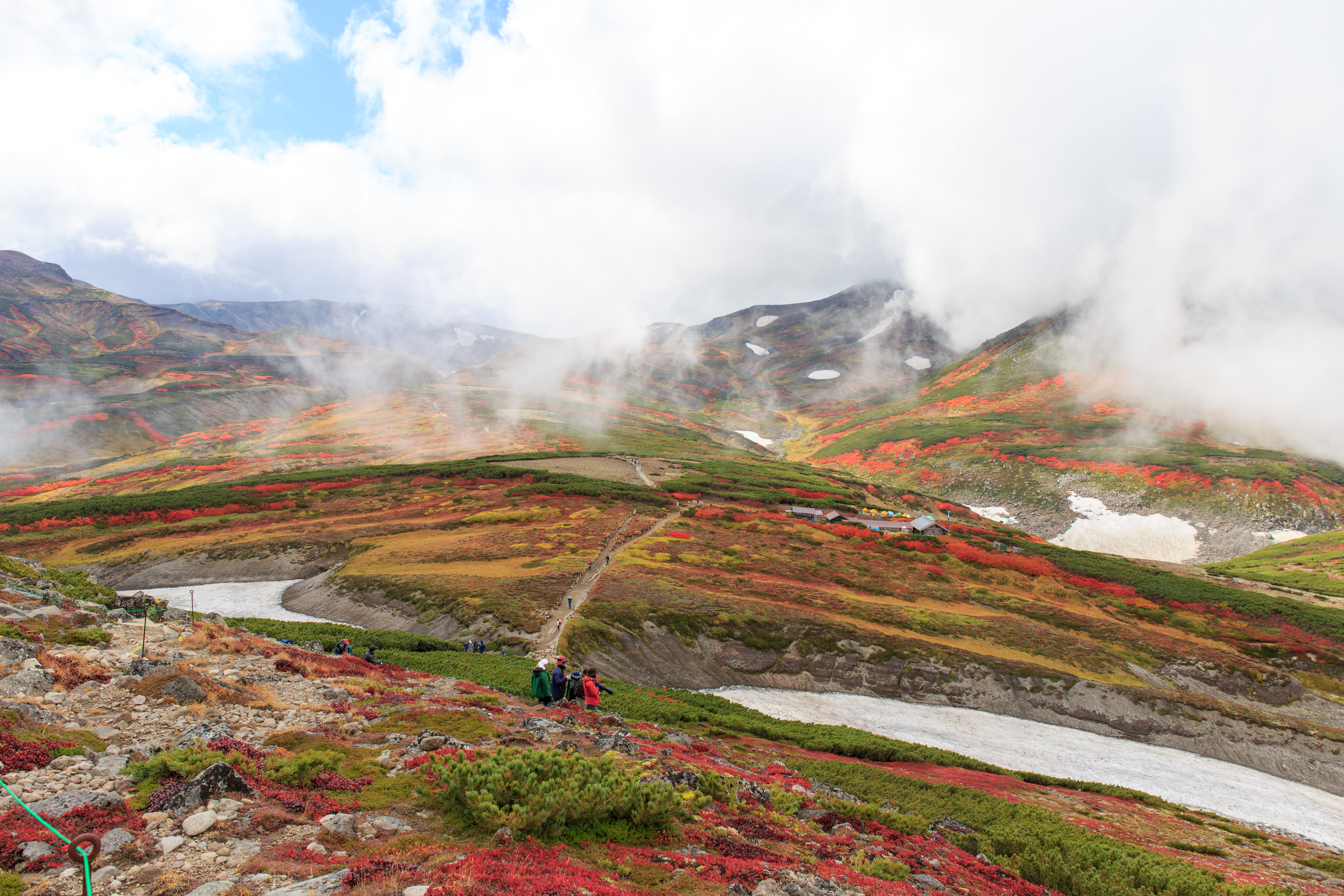 Coloured leaves around the Kurodake Ishimuro hut on Mount Kuro in the Daisetsu Mountains, Hokkaido, Japan